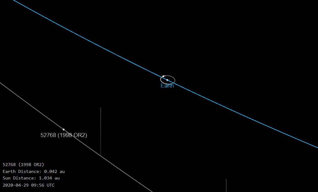 Position of asteroid (52768) 1998 OR2 when it was closest to the Earth around 09:56 on April 29, 2020 (UTC). The white line around the Earth indicates the orbit of the Moon.